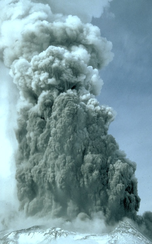 Phreatic eruption at the summit of Mount St. Helens. Hundreds of these steam-driven explosive eruptions occurred as magma steadily rose into the cone and boiled groundwater. These phreatic eruptions preceded the volcano's plinian eruption in May 1980.